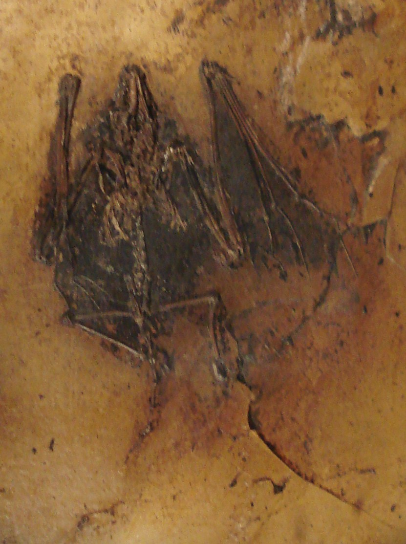 fossil of palaeochiropteryx